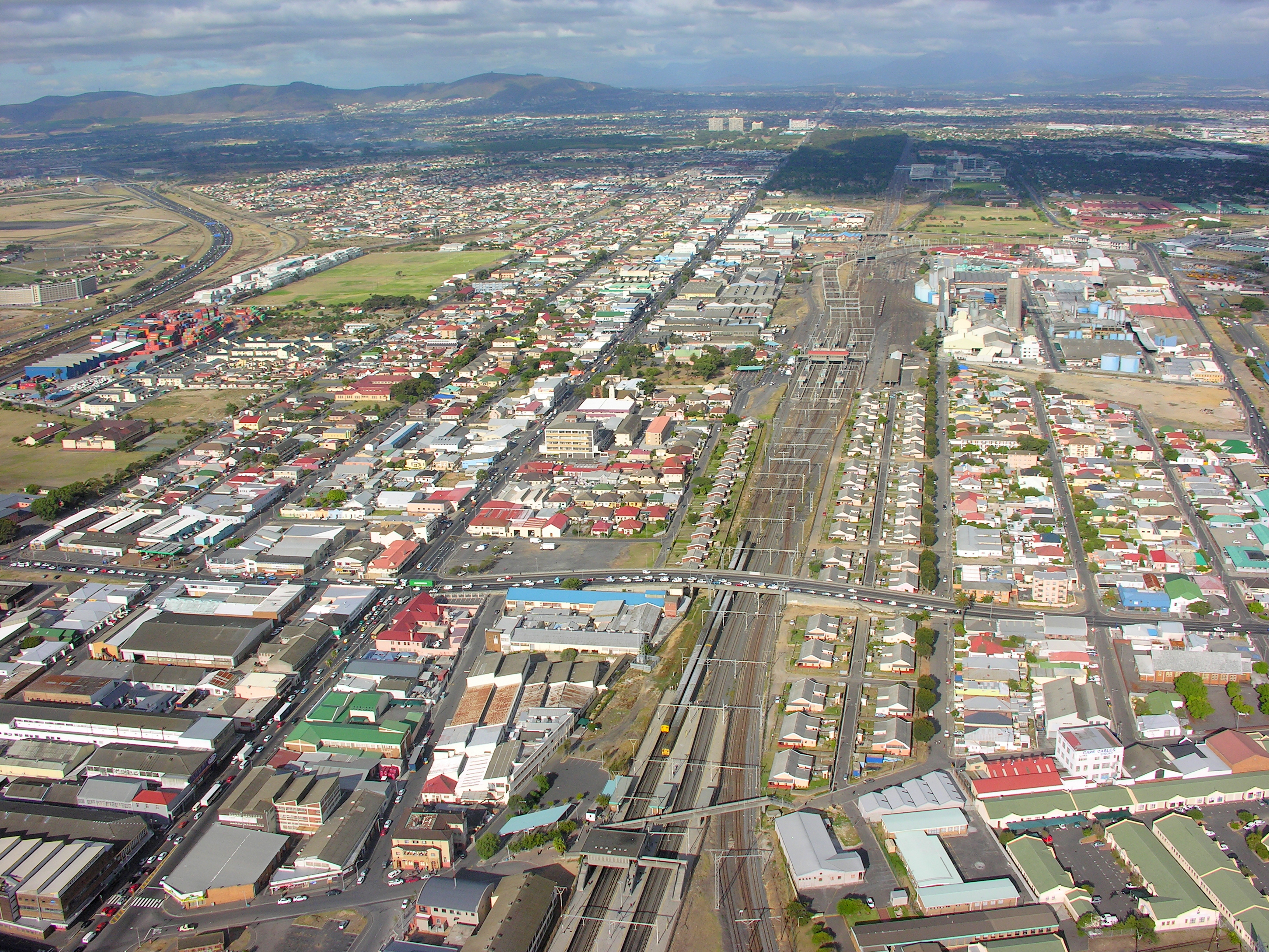 South Africa, Aerial views around Cape Town. For exact location see geocode.